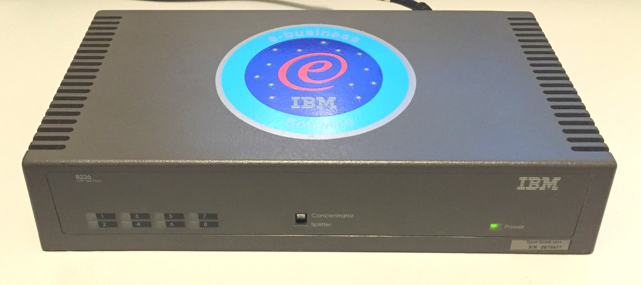 This is the IBM 8226 MAU hub; designed as a low cost compact unit featuring RJ45.